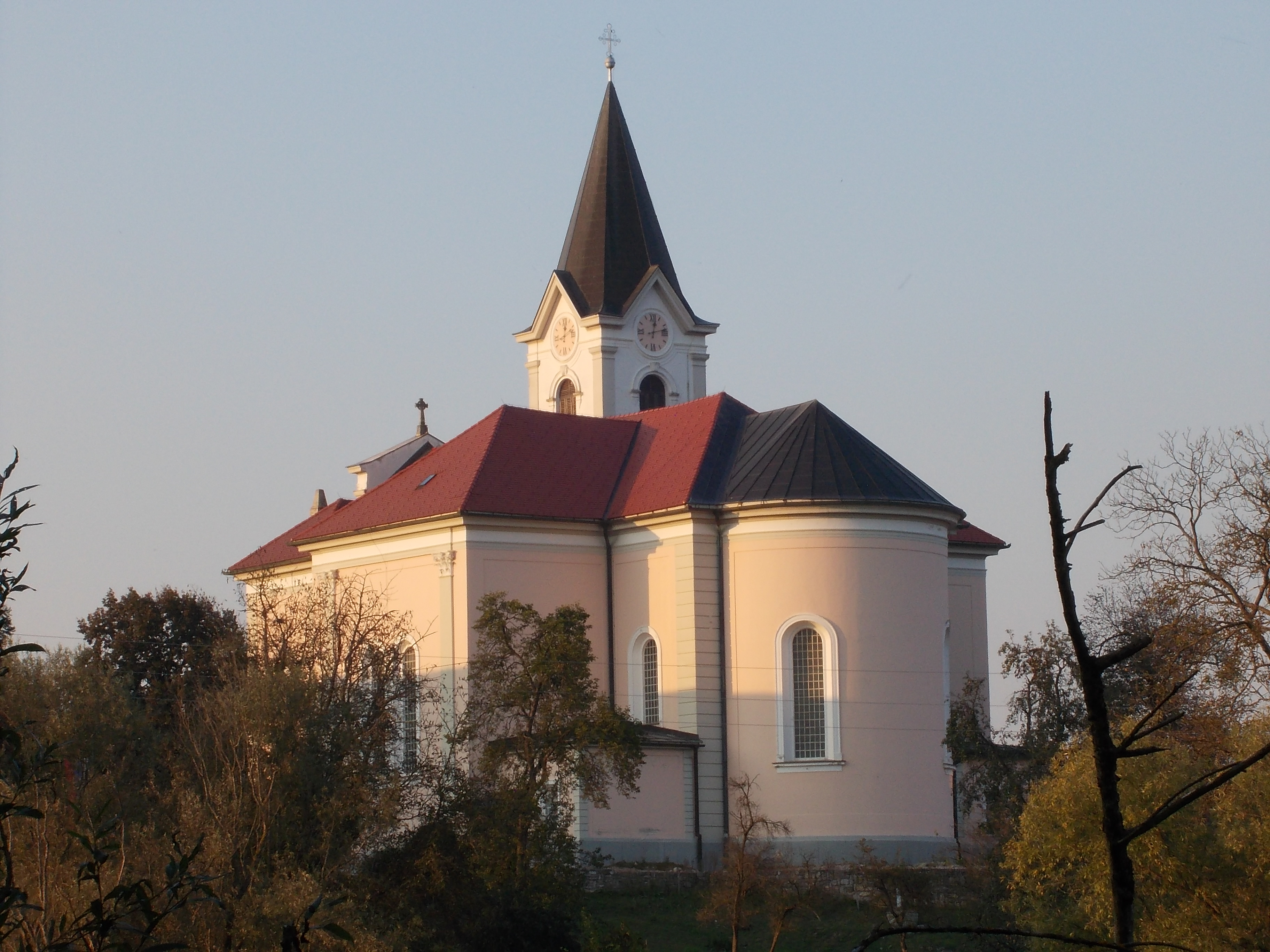 St. Mark's Parish Church (Cerklje ob Krki)